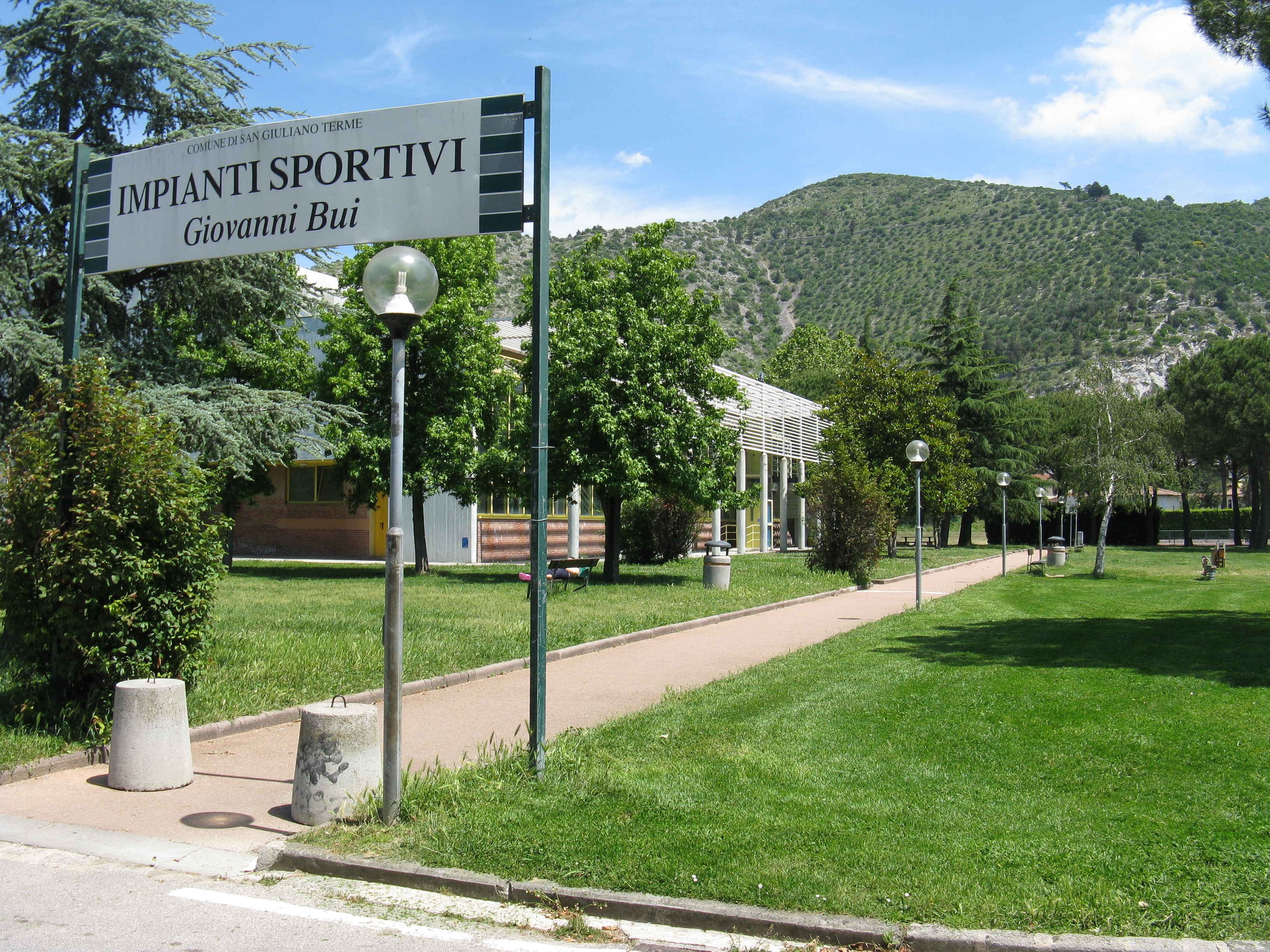 Sports facilities of San Giuliano Terme.